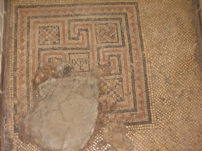 The Church of the Nativity in Bethlehem. The Ichthys mosaic (4th cent.). / Crkva Rođenja Isusova u Betlehemu. Mozaik s natpisom »Ihthys«, (4. st.).